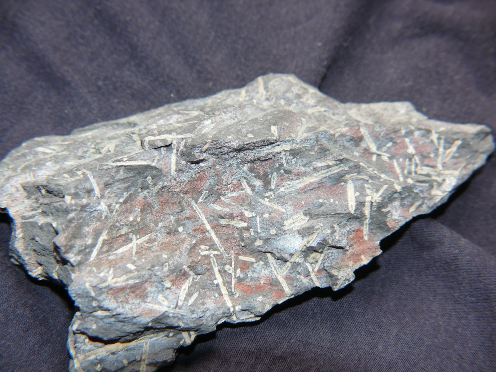 metamorphic shist with andalusite